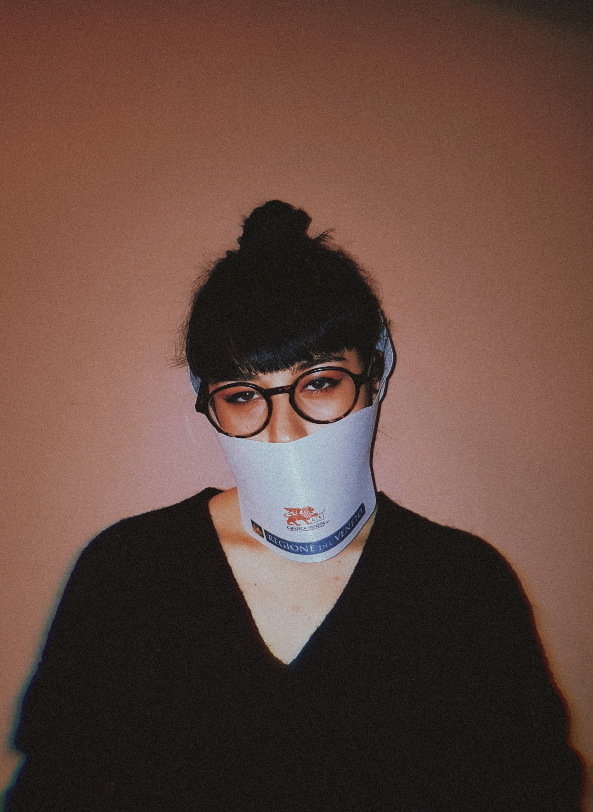 A girl wearing an emergency face scheme made by Regione Veneto for the COVID-19 outbreak